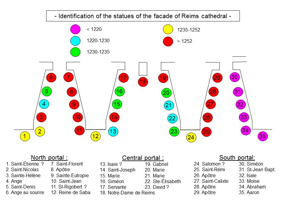 Identification of the statues of the 3 portals of the facade of Reims cathedral (Marne, France).